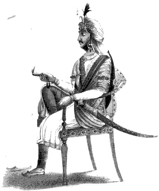 Taken from "The history of the Sikhs Volume 1" by William Lewis M'Gregor pg 317